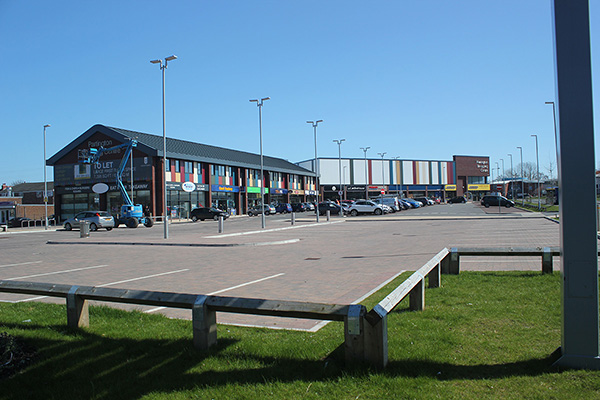 Partington, Manchester new shopping centre completed in 2014